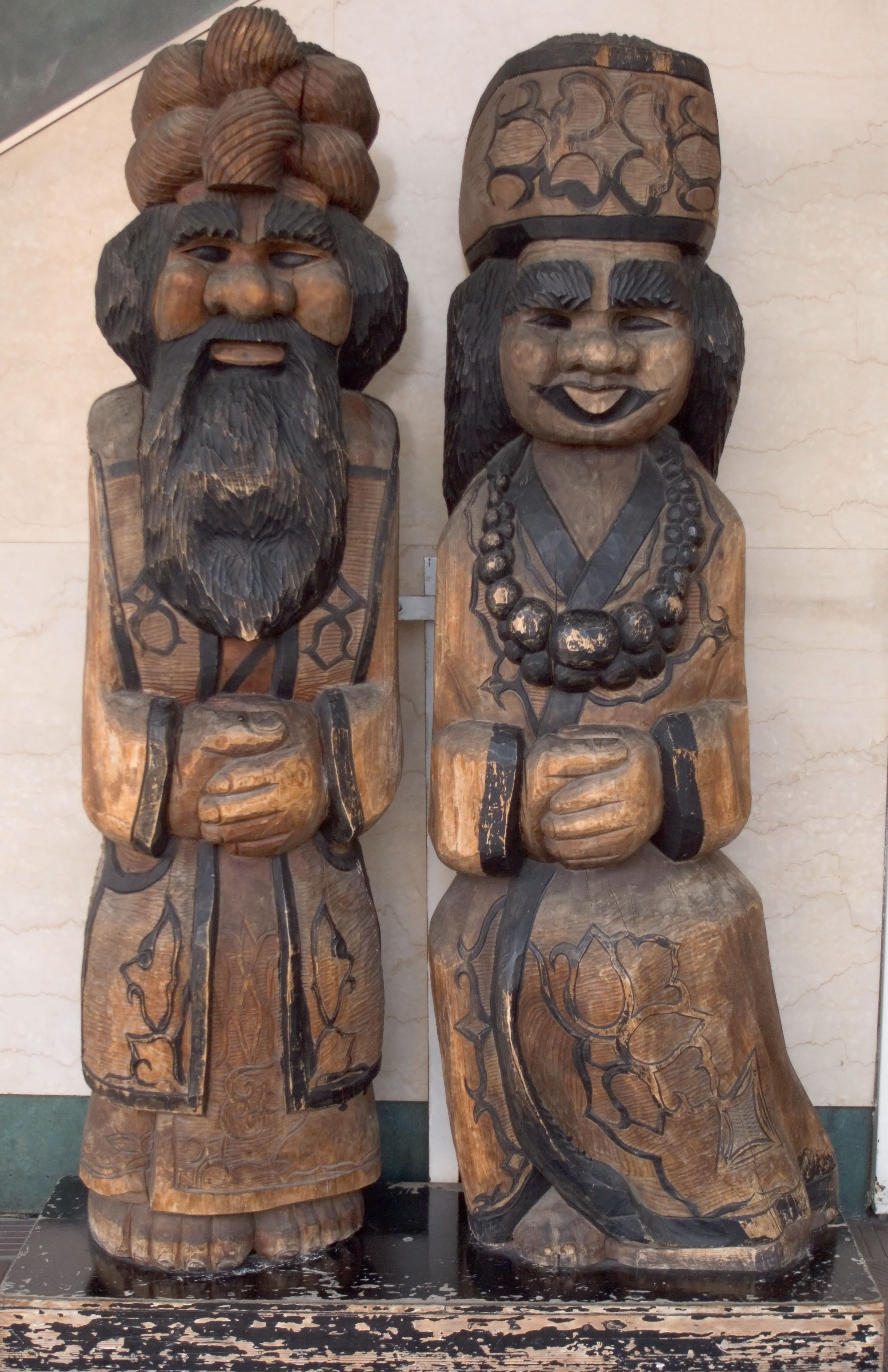 Nipopo (Ainu's traditional wooden dolls) in Asahikawa station, Hokkaido, Japan